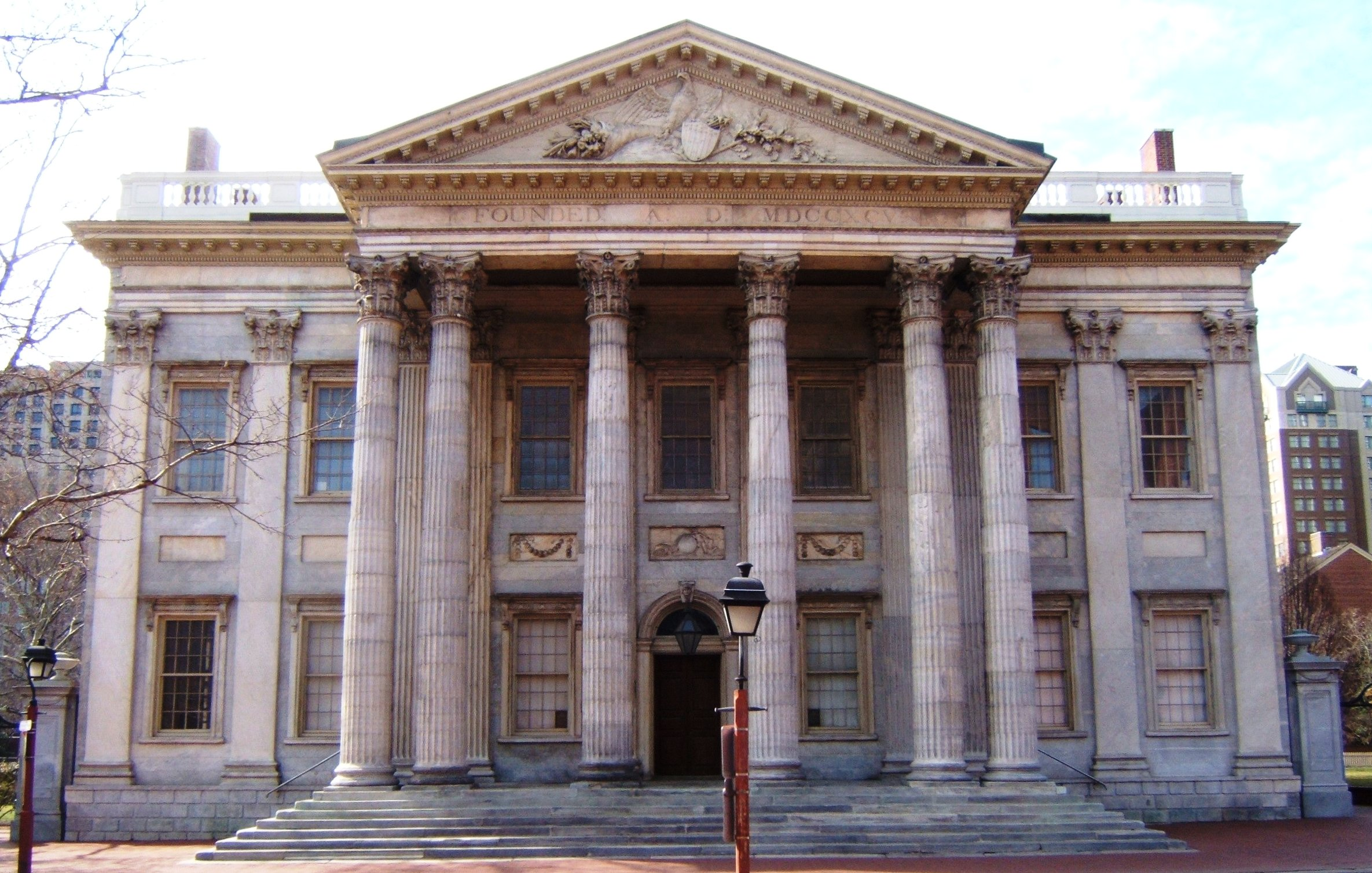 First Bank of the United States (1797-1811), Stephen Girard’s Bank (May, 1811-1831), subsequent banks, and owned since 1955 by the National Park Service. Location: 116 South 3rd Street, Philadelphia, PA 19106.